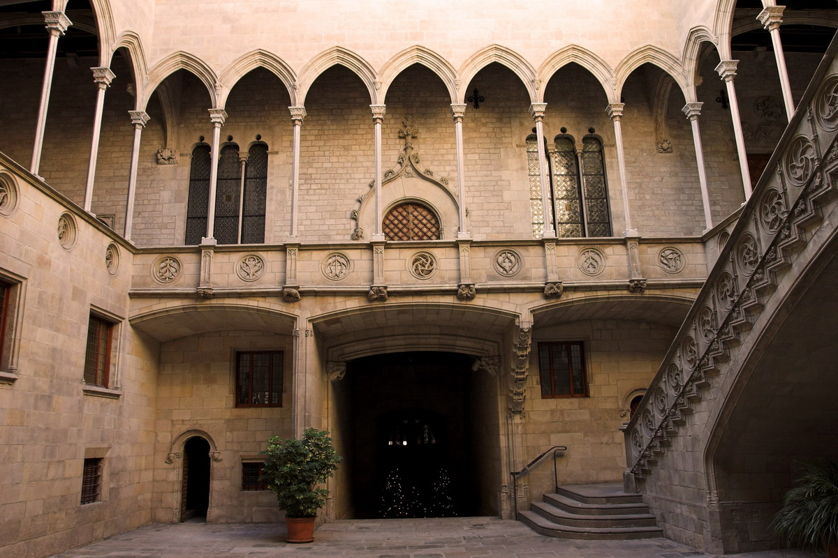 Gothic gallery of Palau de la Generalitat (Catalan Government Seat) in Barcelona. 15th century - by Marc Safont.